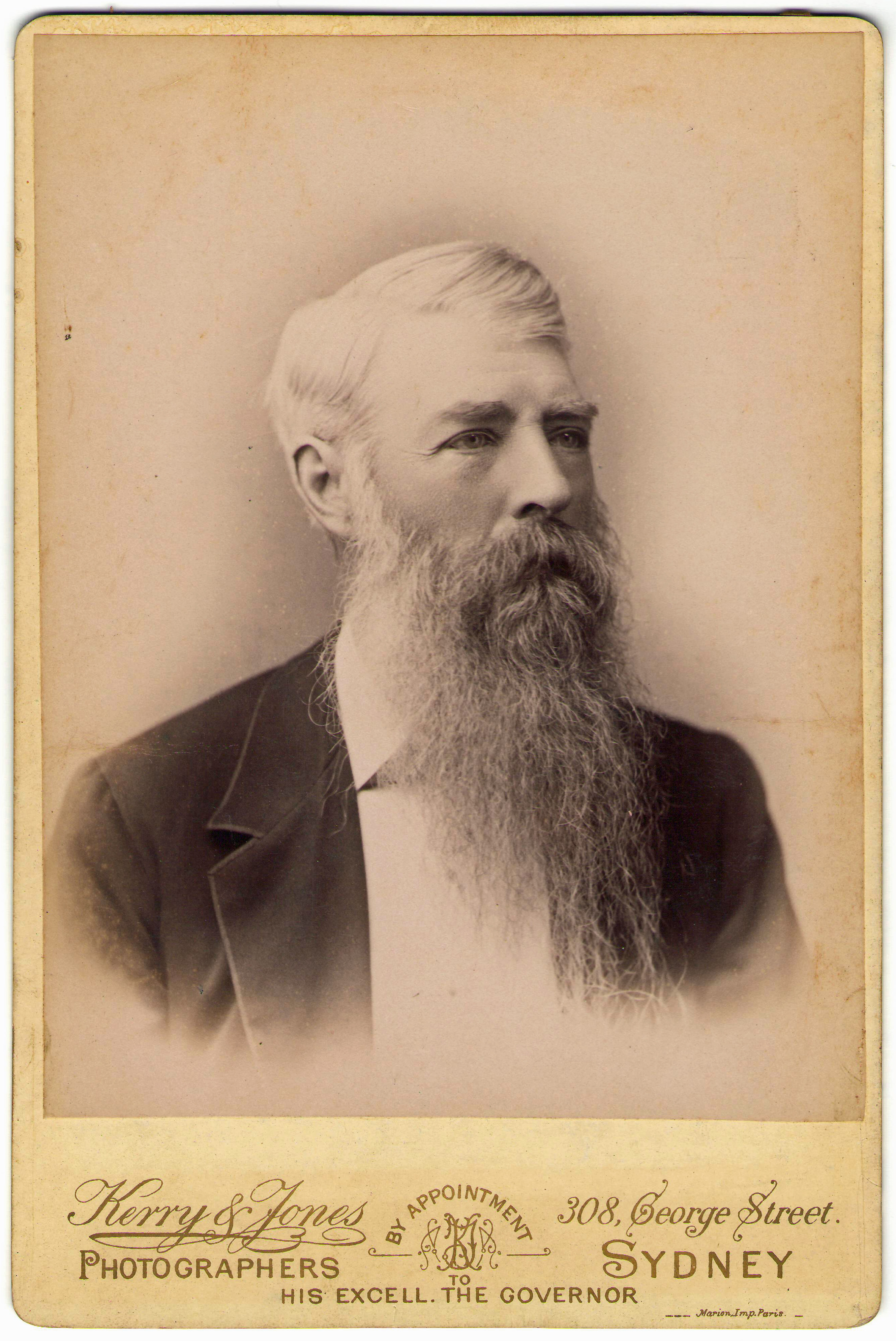 Tasmanian politician Philip Fysh at the 1891 Australasian Federal Convention in Sydney